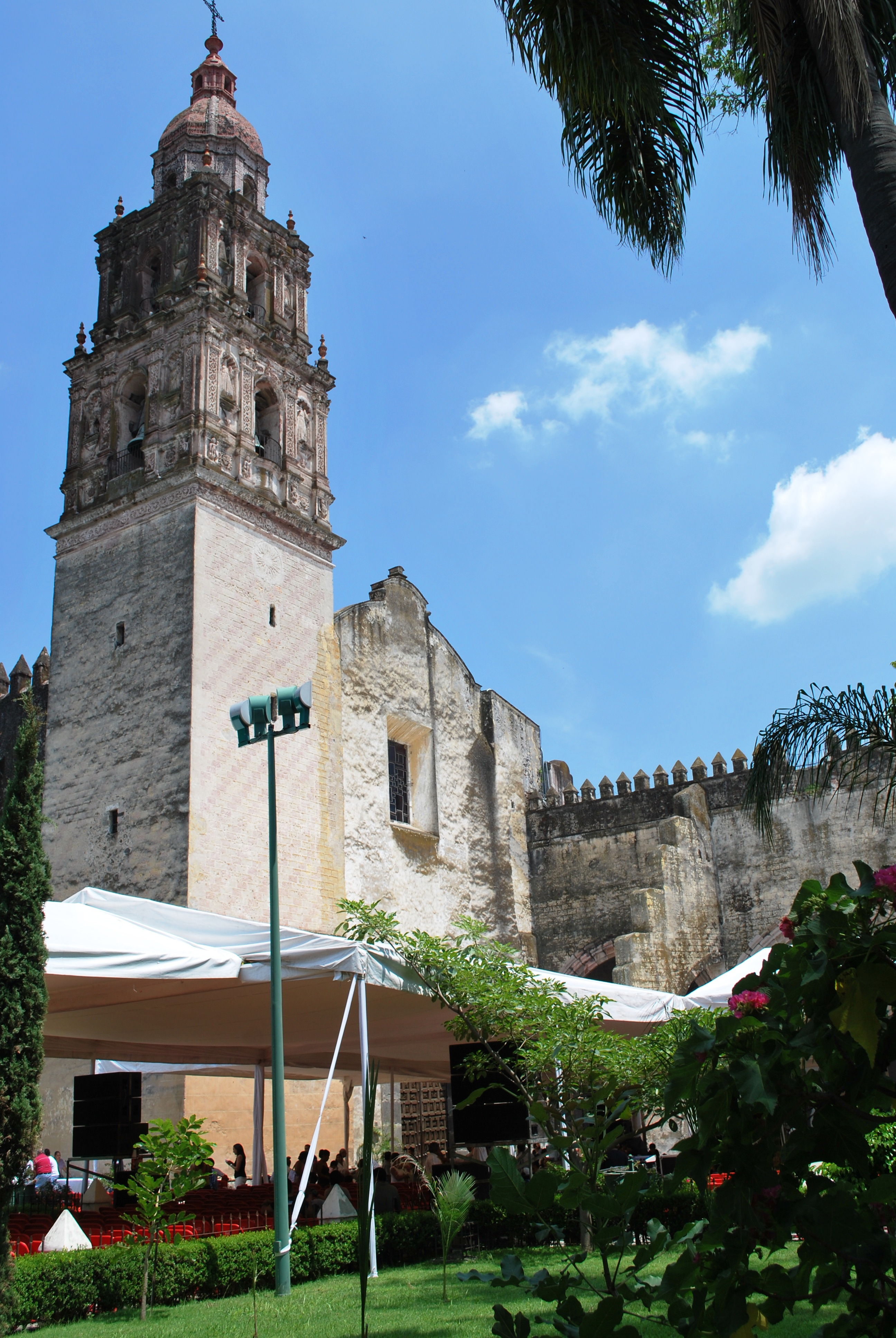 Facade of Cathedral of Cuernavaca. The tent is for a concert and wedding. In Cuernavaca, Morelos, Mexico